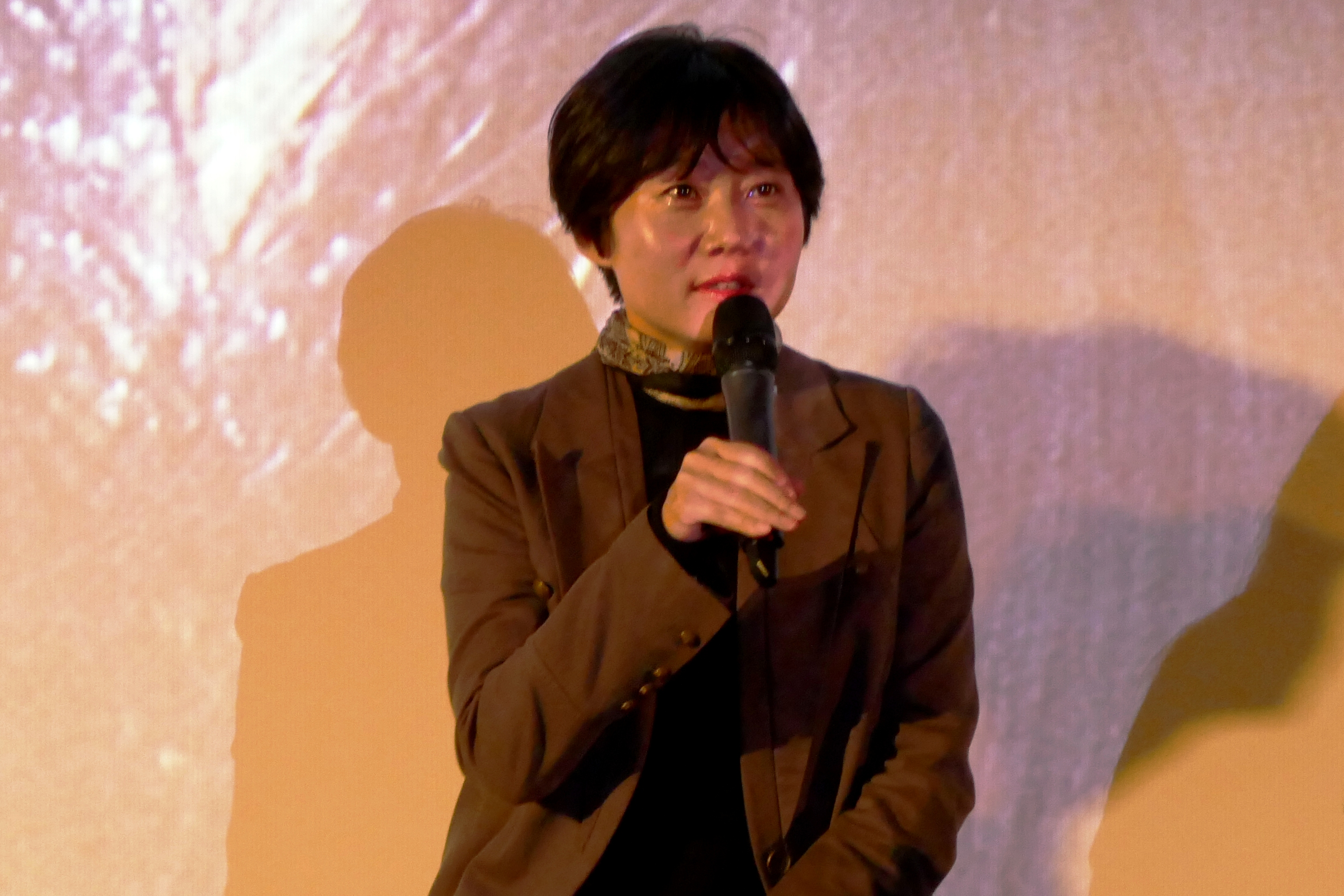 Lee Kyoung-mi at Paris Korean Film Festival 2016 for the movie "The Truth Beneath"